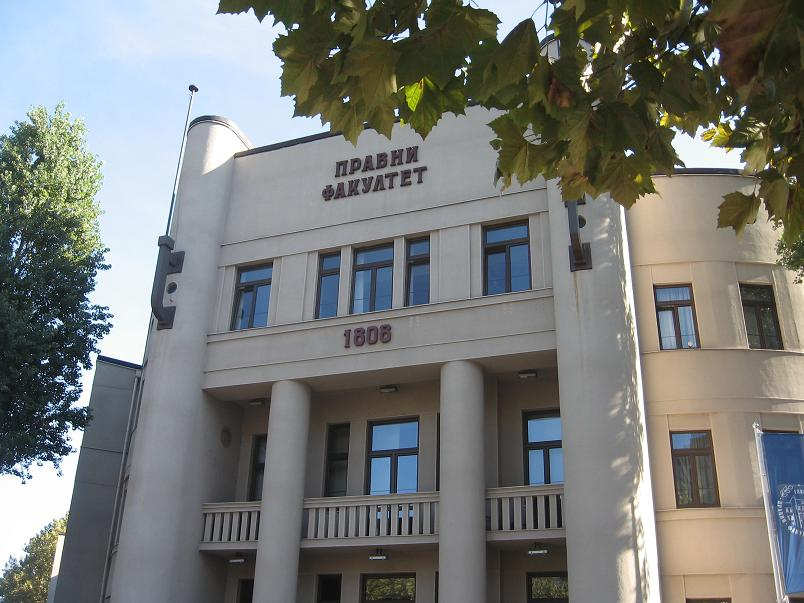 (foto: Goran Necin)